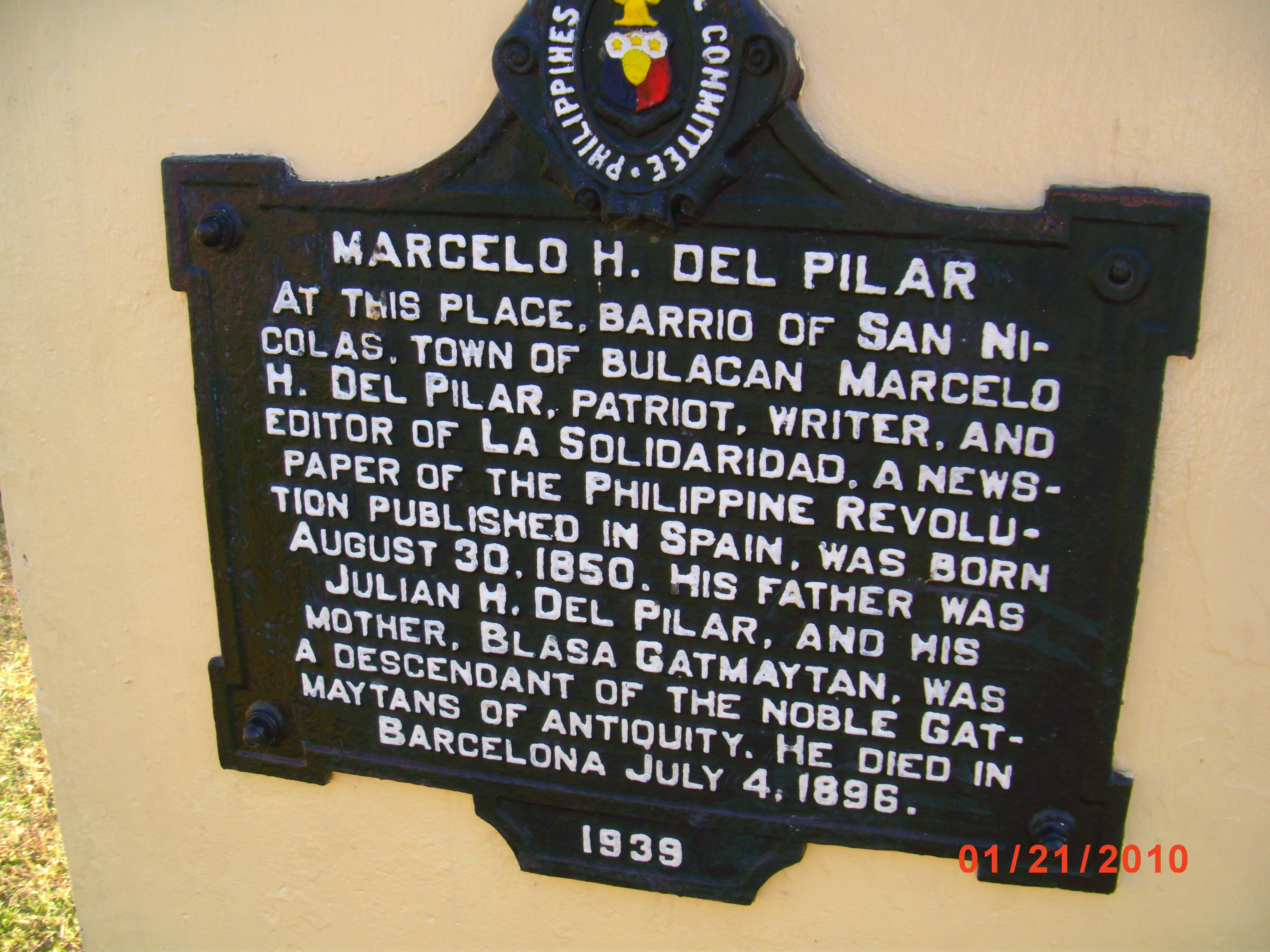 Historical marker inside the National Shrine of Marcelo H. Del Pilar in San Nicolas, Bulacan, Bulacan